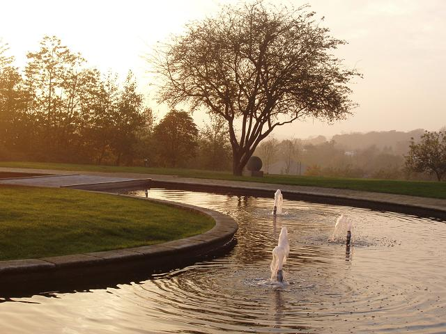 Millenium Gardens at University of Nottingham